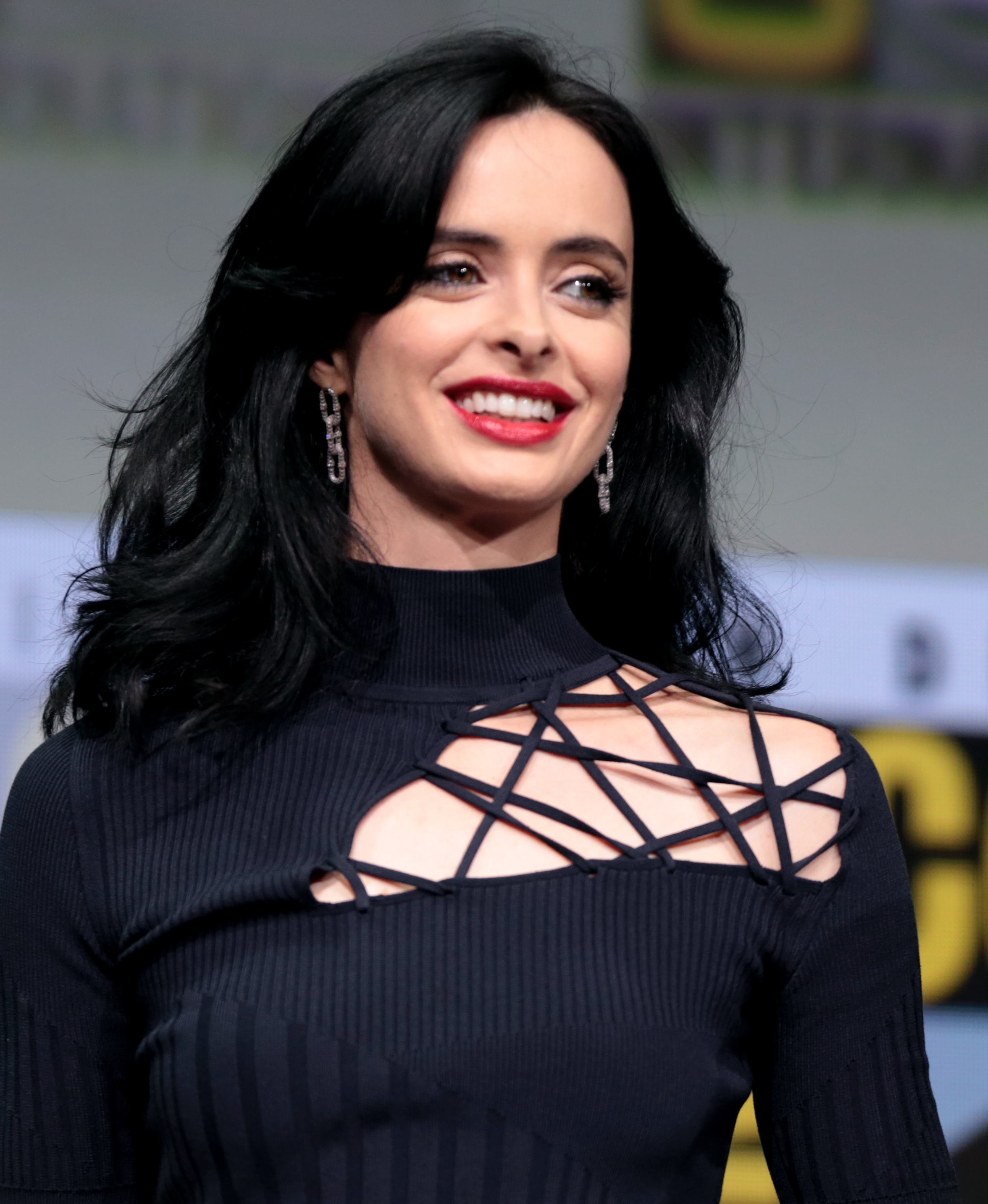 Krysten Ritter at the 2017 San Diego Comic Con International, for "Marvel's The Defenders", at the San Diego Convention Center in San Diego, California.